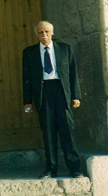 Abdul Karim Al-Orrayed Standing